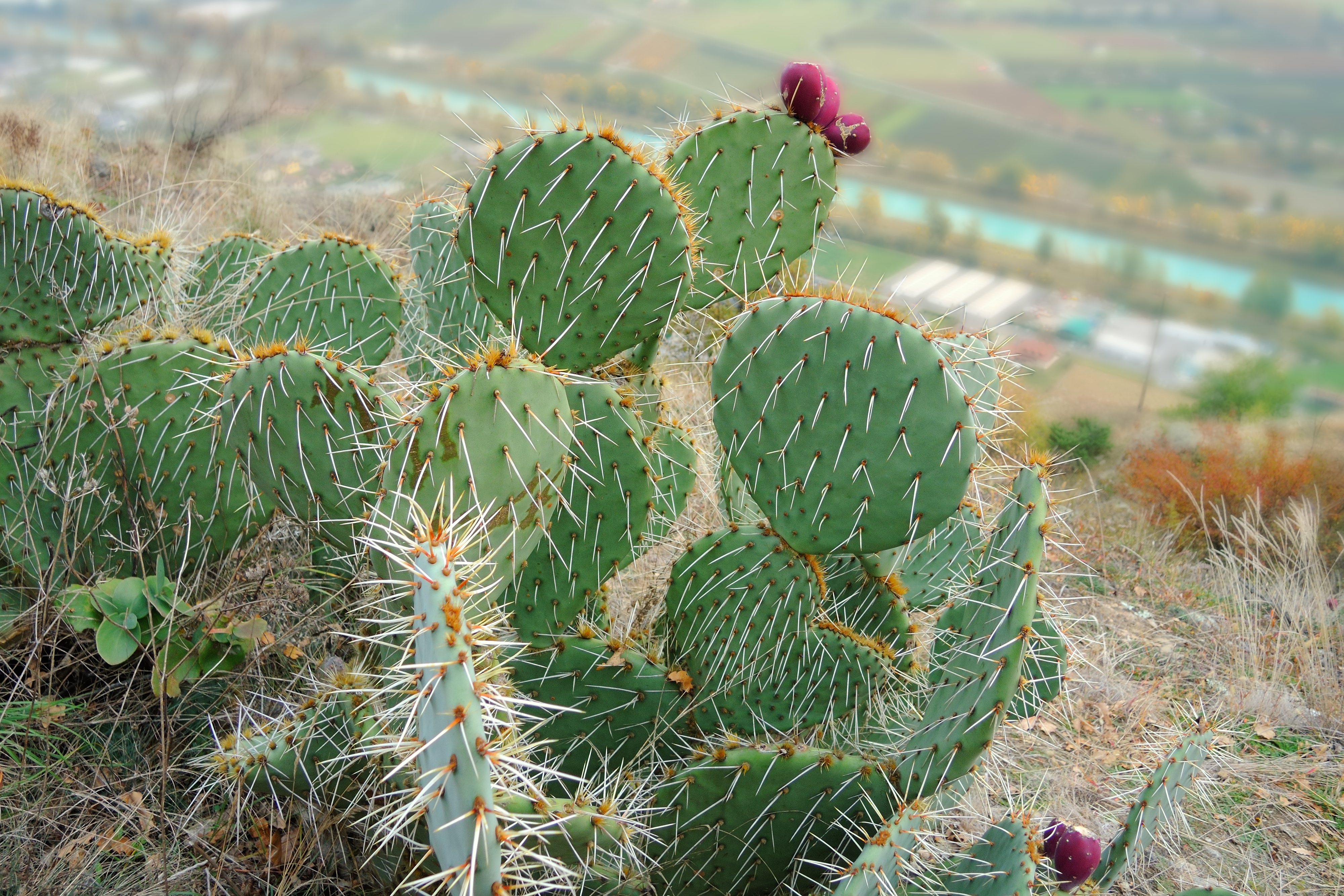 Cactuses (Opuntia engelmannii , identified with Les opuntias du Valais, un problème épineux, ca. 50 cm high) above Branson (mun. of Fully) in the protected area of Les Follatères. South facing slopes above the Rhone Valley, ca. 600 metres above sea level.